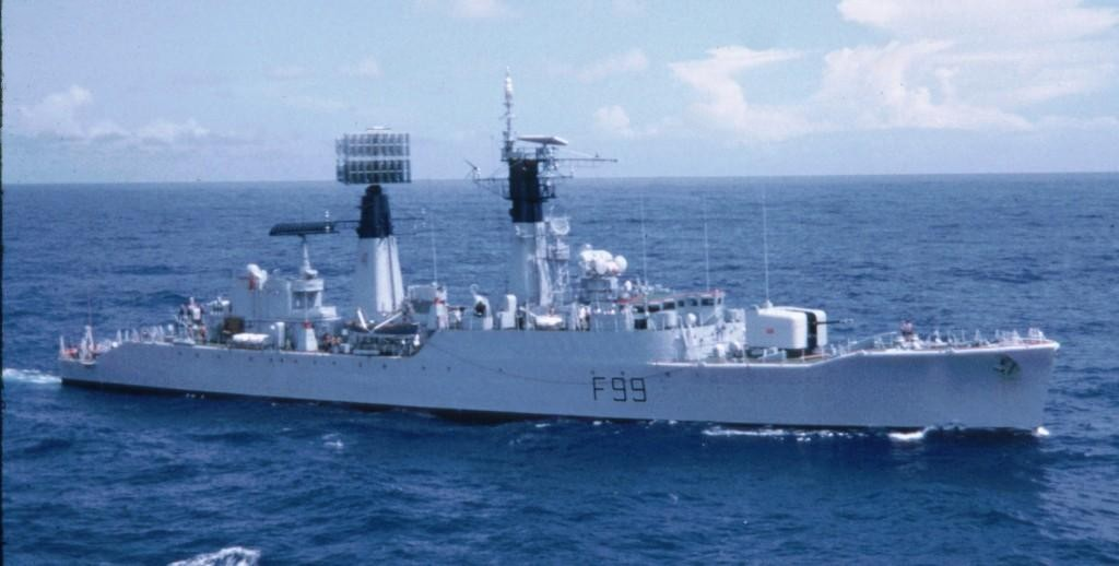 Photograph of HMS Lincoln.